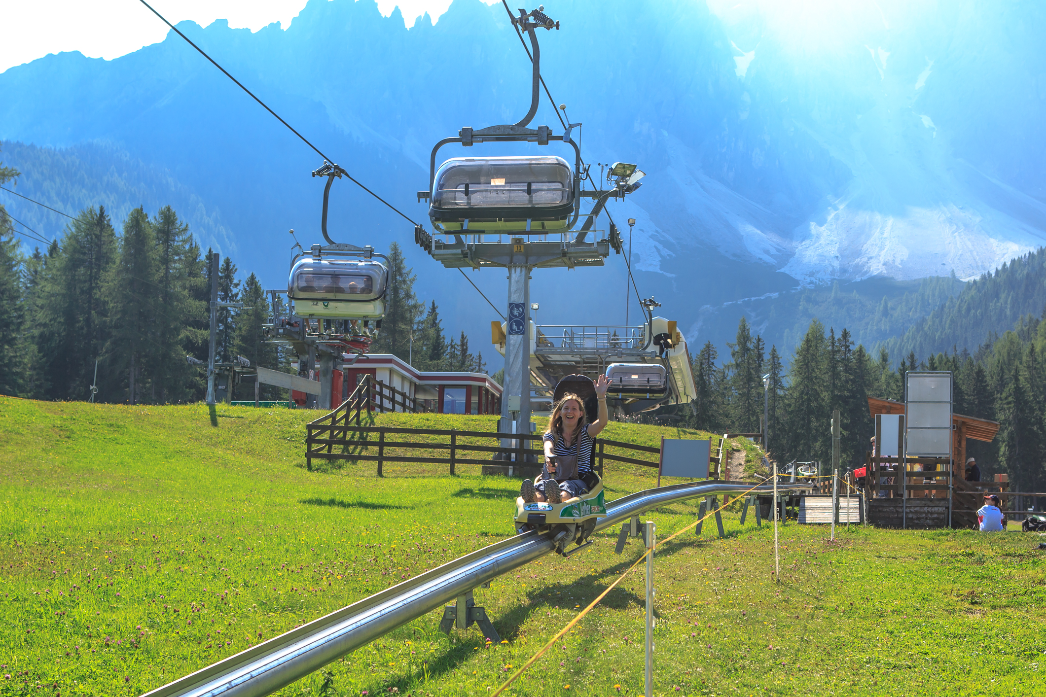 Dolomites...San Candido area...kids will be kids